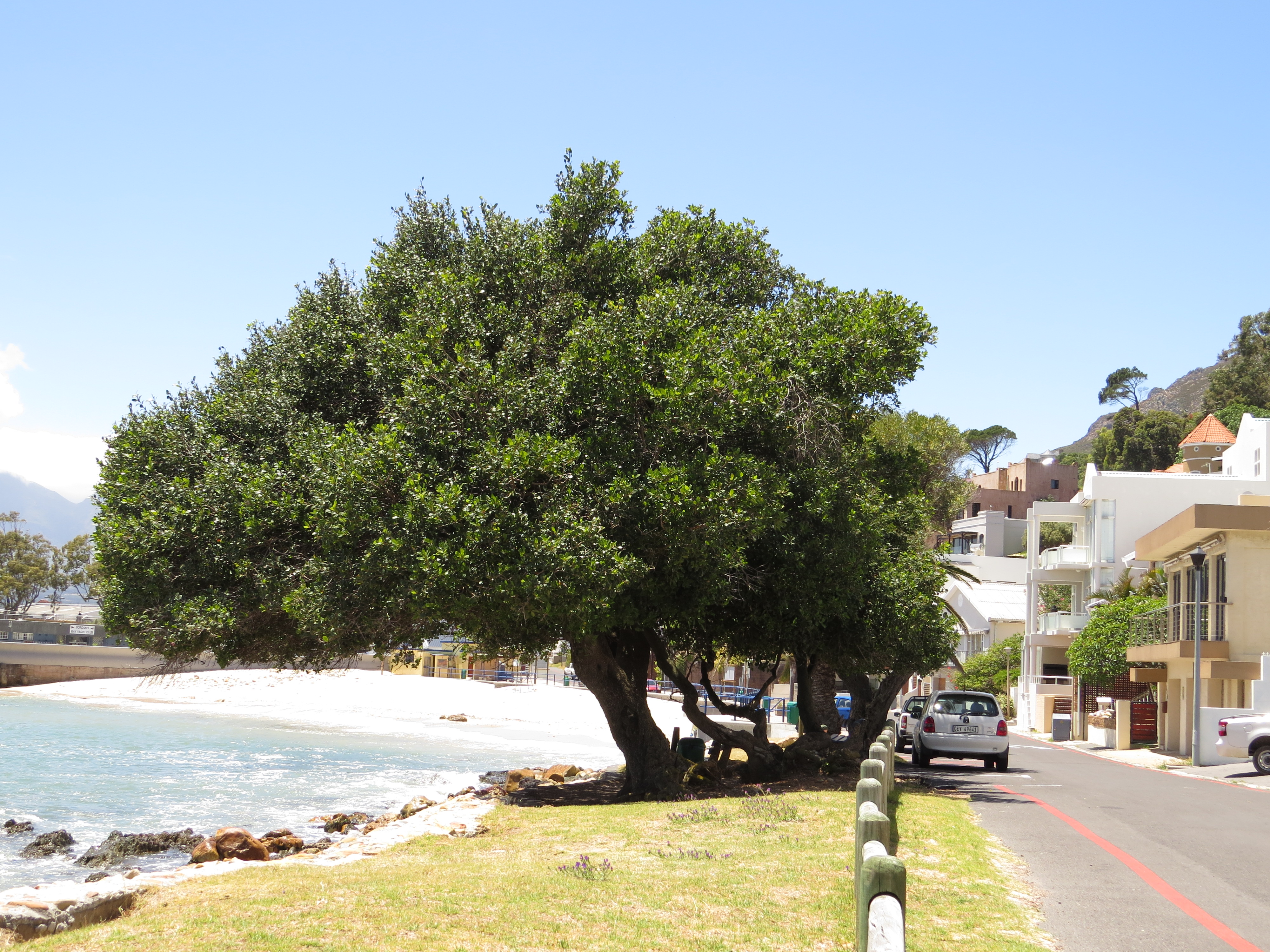 The tree is well shaped with one or more major trunks. It may be neat with a clear trunk, but in some circumstances, its branches cladteh tree all the way to the ground.